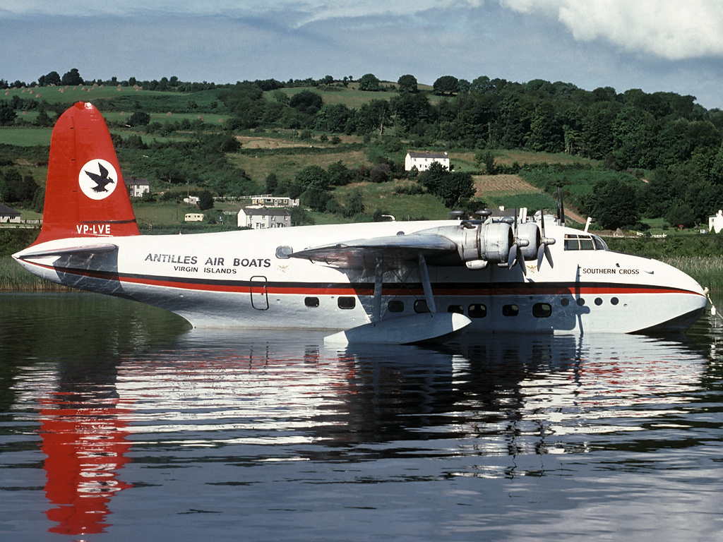 Antilles Air Boats Short S-25 Sandringham 4 on Lough Derg at Killaloe